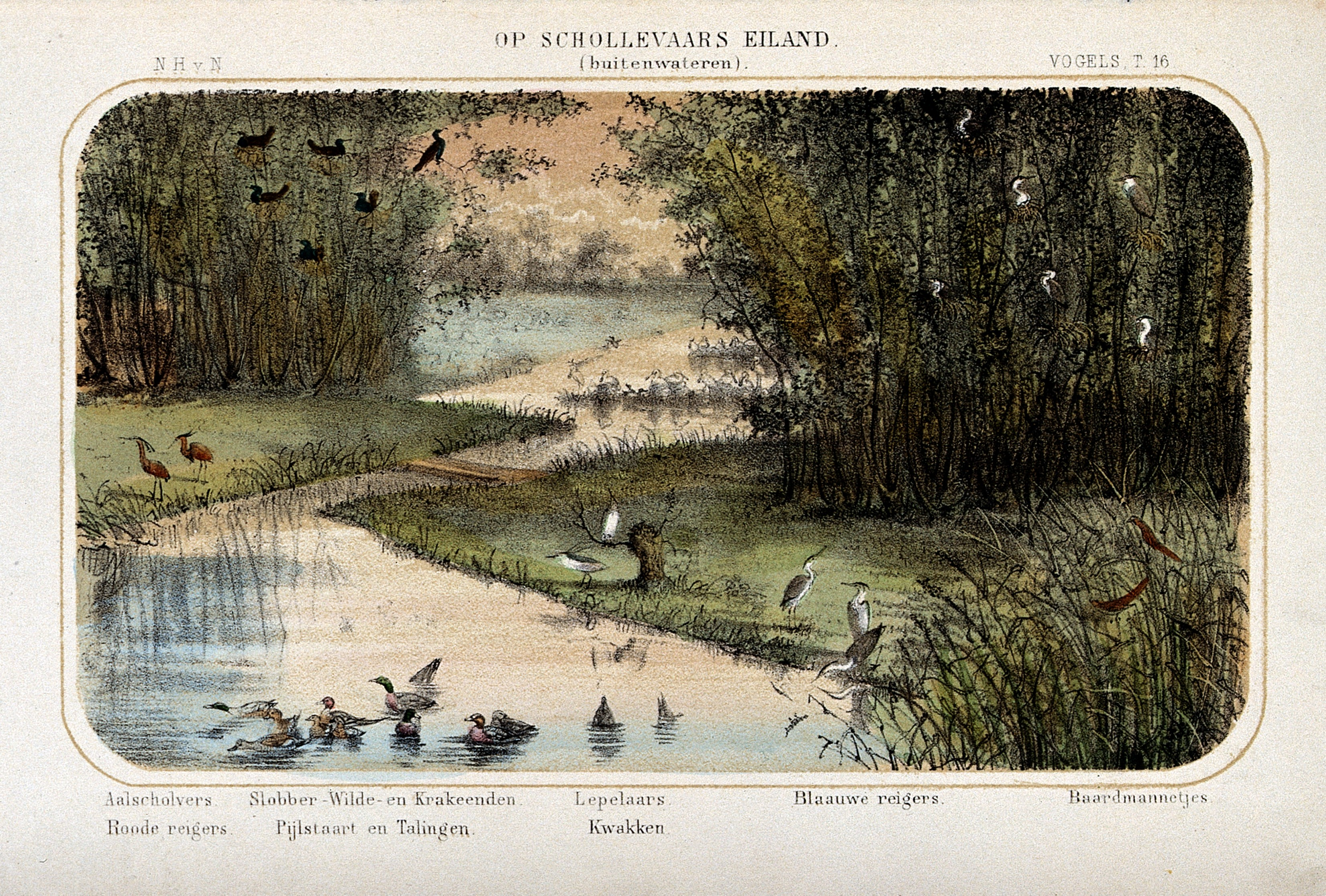 Birdlife on the inland waters of Cormorant's Island, The Netherlands. Coloured lithograph by P. Trap. Iconographic Collections Keywords: P.W.M. Trap